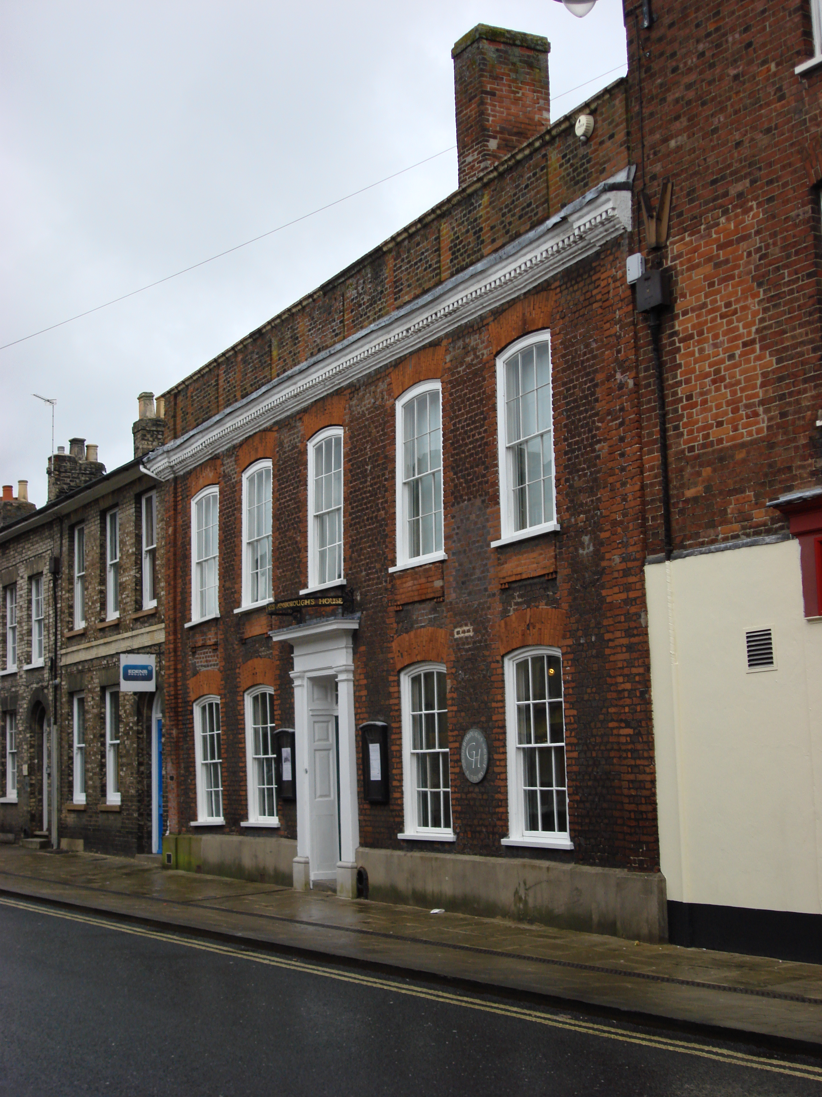 Thomas Gainsborough's house Sudbury, Suffolk. A Grade I listed building.